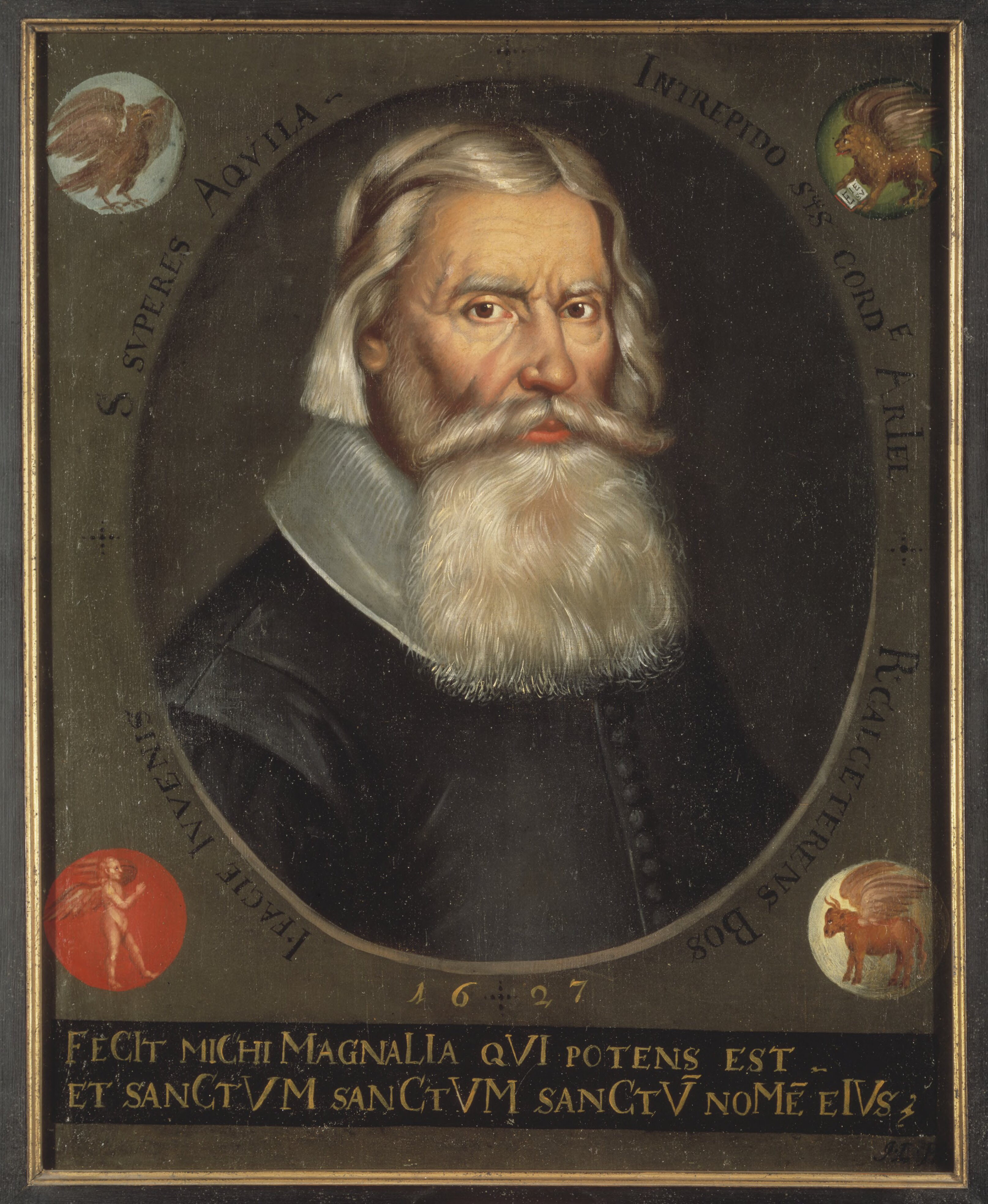 Portrait of Swedish antiquarian, runologist and mystic Johannes Bureus or Johan Bure (1568-1652). The painting is in the portrait collection at Gripsholm Castle.